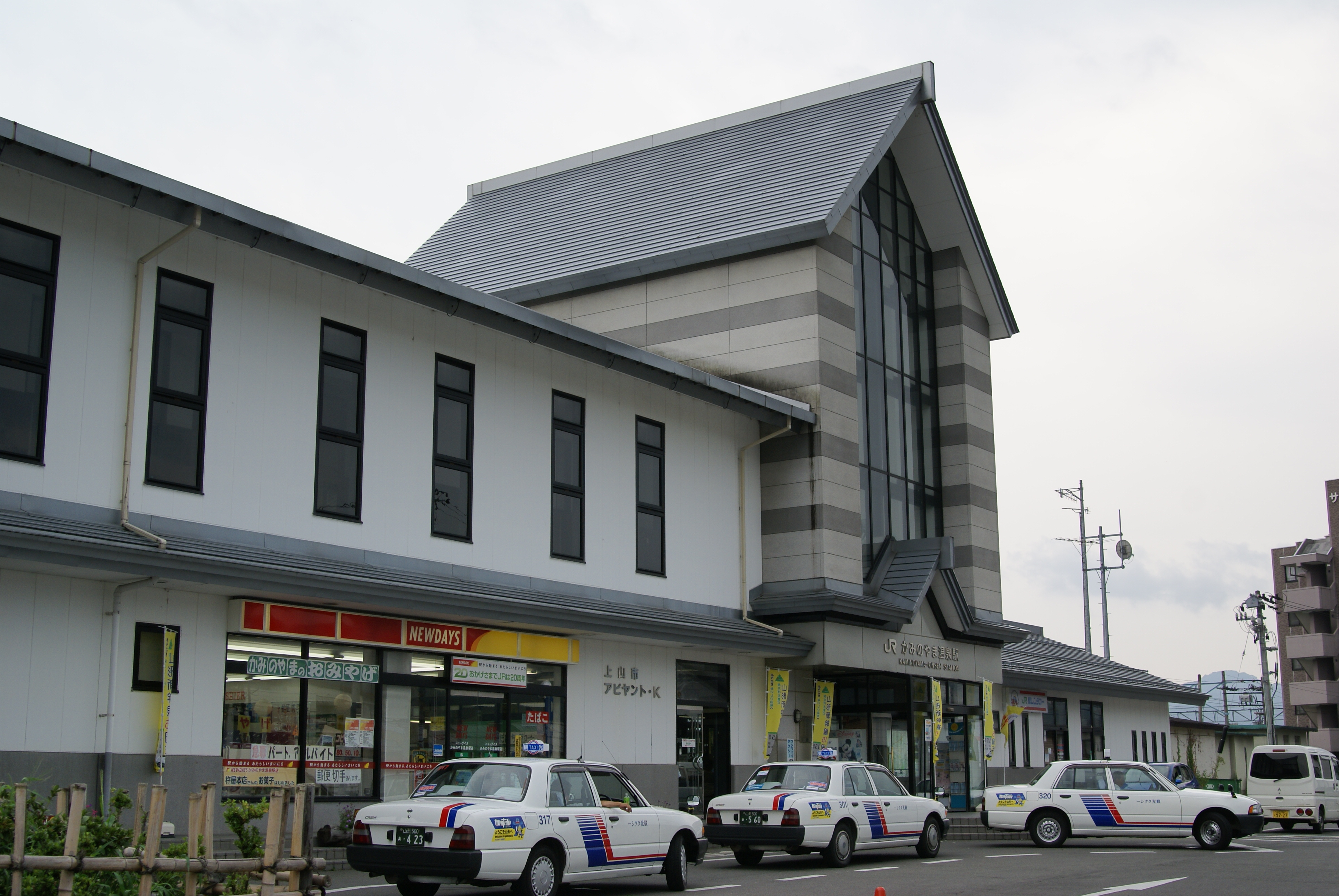 JR East Kaminoyama Onsen Station